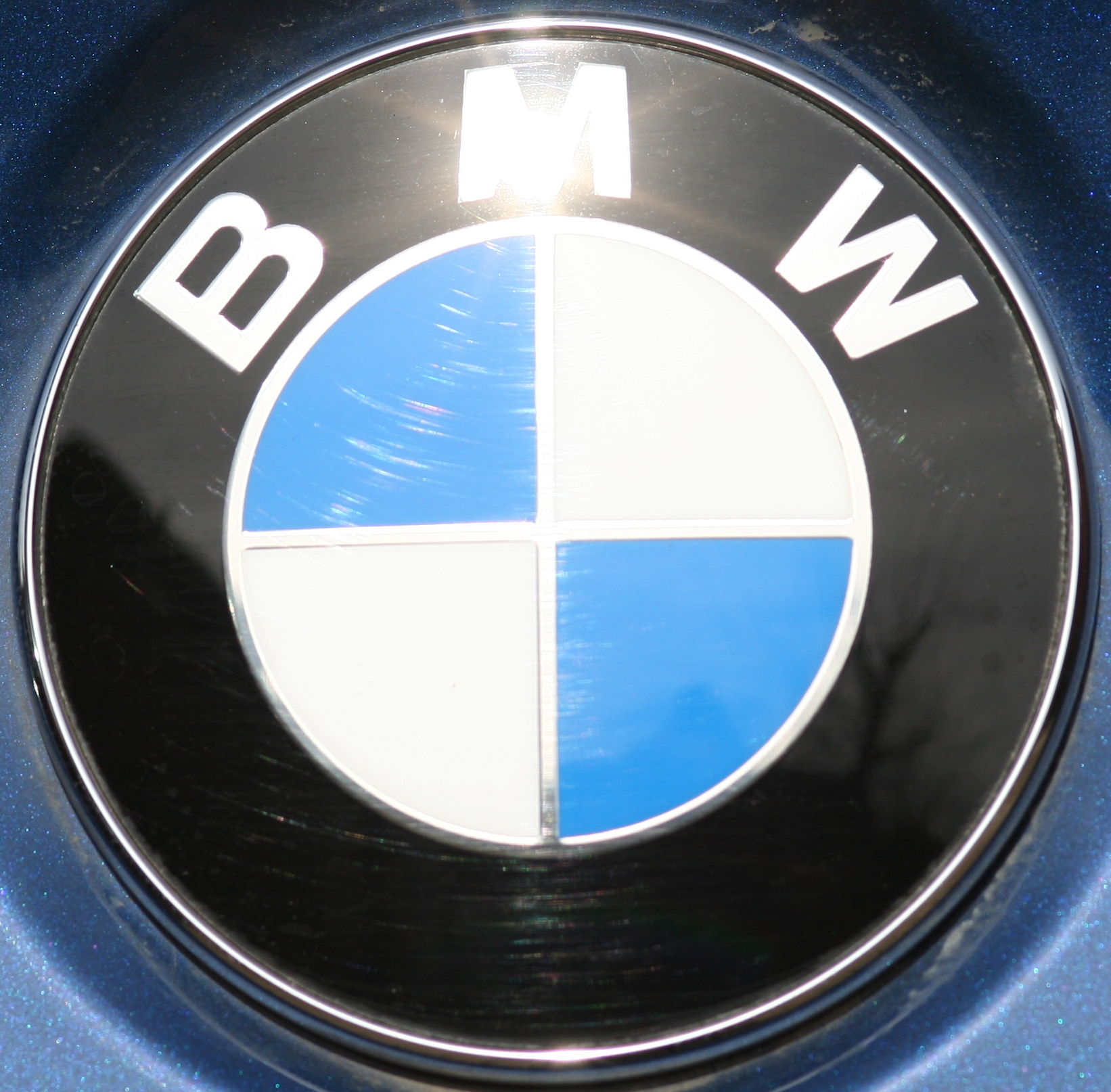 Obvious candidate, really. Took ages to get the sun's reflection just so...